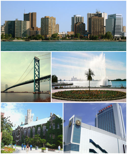 Montage of free-use images of Windsor, Ontario.